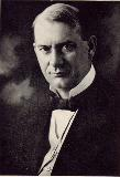 Joseph Franklin Rutherford